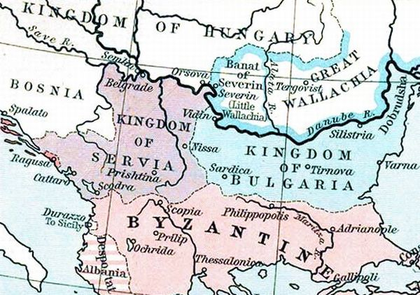 States in the Balkans in the 13th century (1265). The Historical Atlas, William R. Shepherd, 1911.